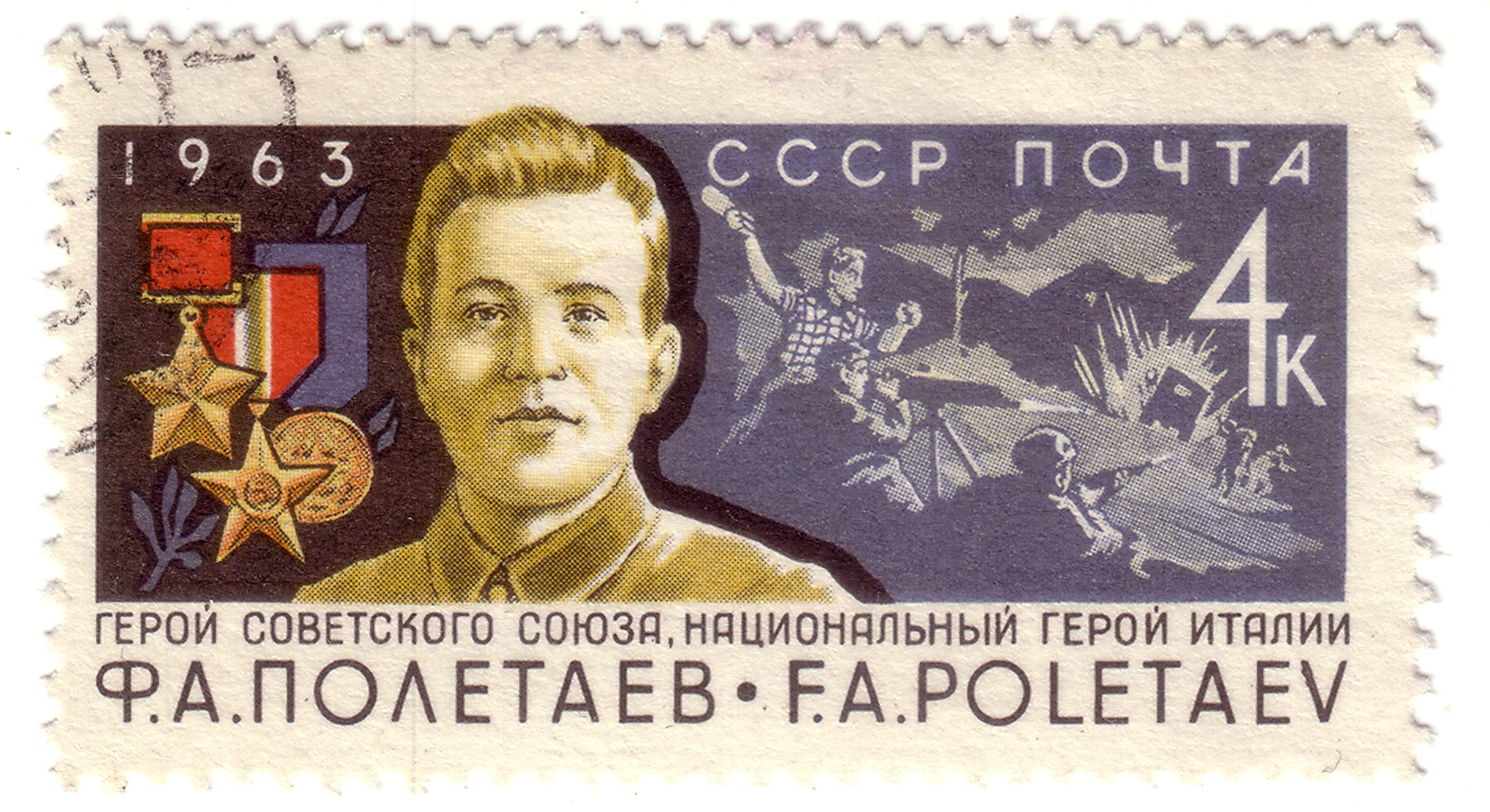 Postal stamp depicting the hero of the Soviet Union and the National Hero of Italy Poletaeva.F.A